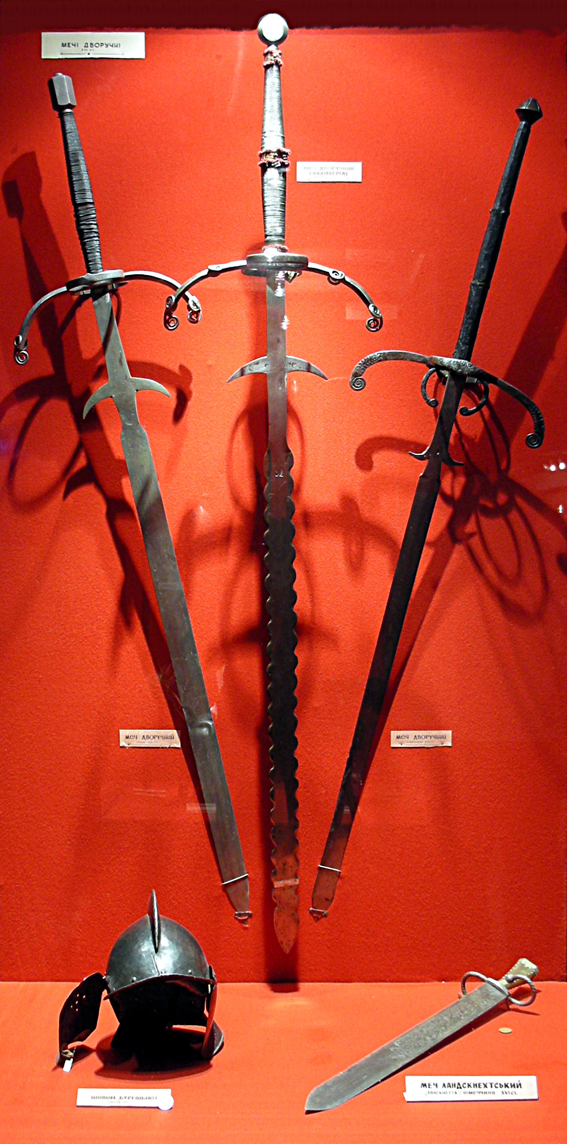 Swords in "Arsenal" Museum in Lviv (Ukraine).